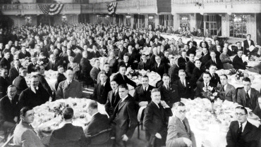 Banquet for the W&J football team following the 1922 Rose Bowl at the William Penn Hotel.